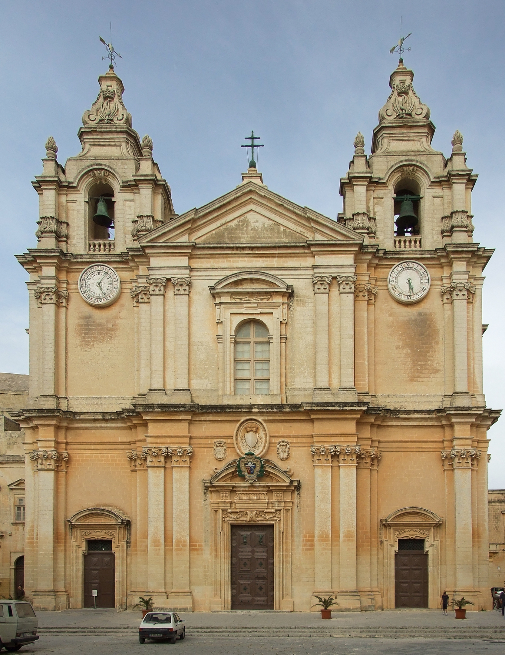 St. Paul's Cathedral in Mdina, Malta. Designed by the architect Lorenzo Gafa, it was built between 1697 and 1702.